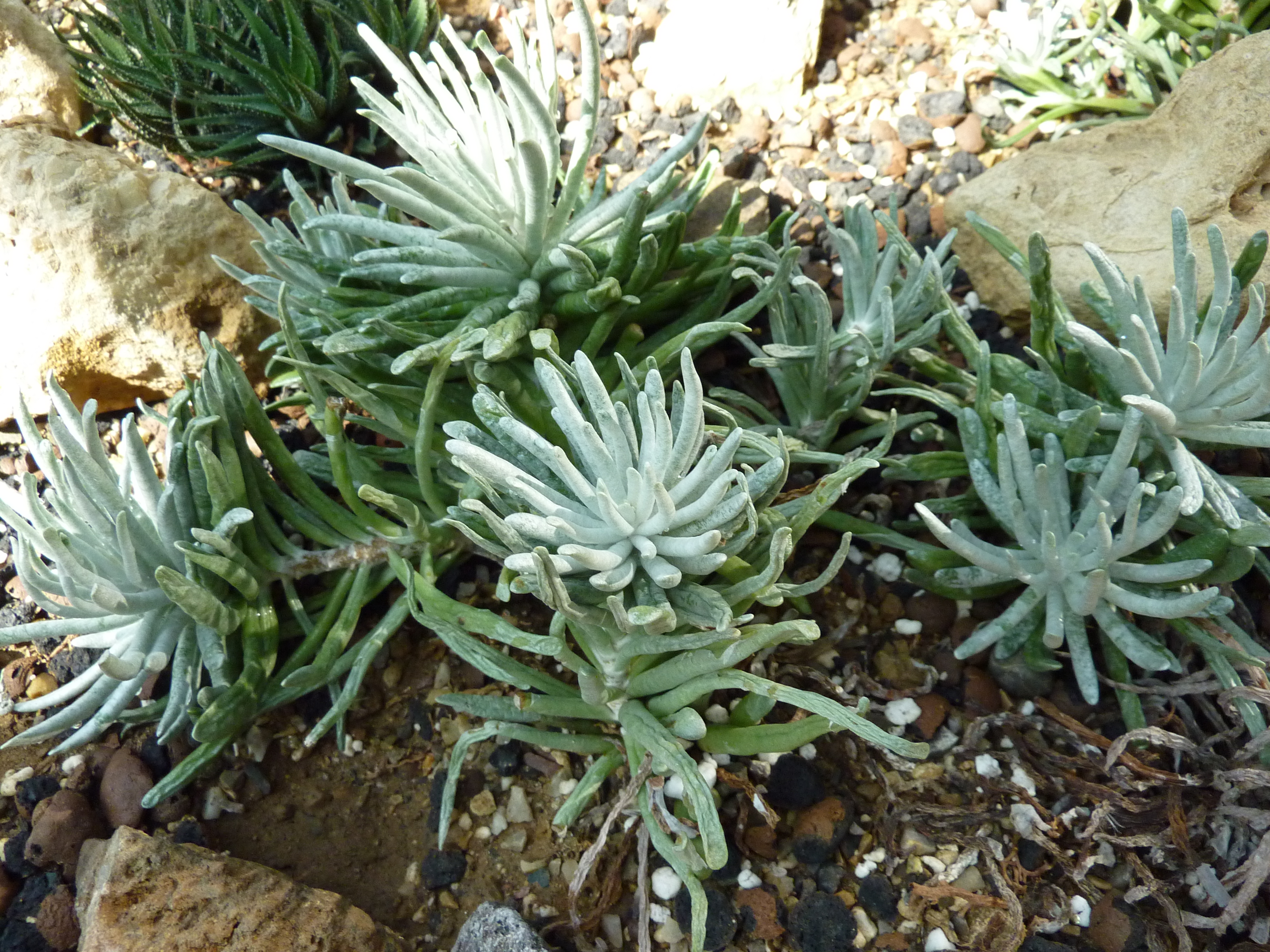 Senecio scaposus var. caulescens at the Botanischer Garten Freiburg